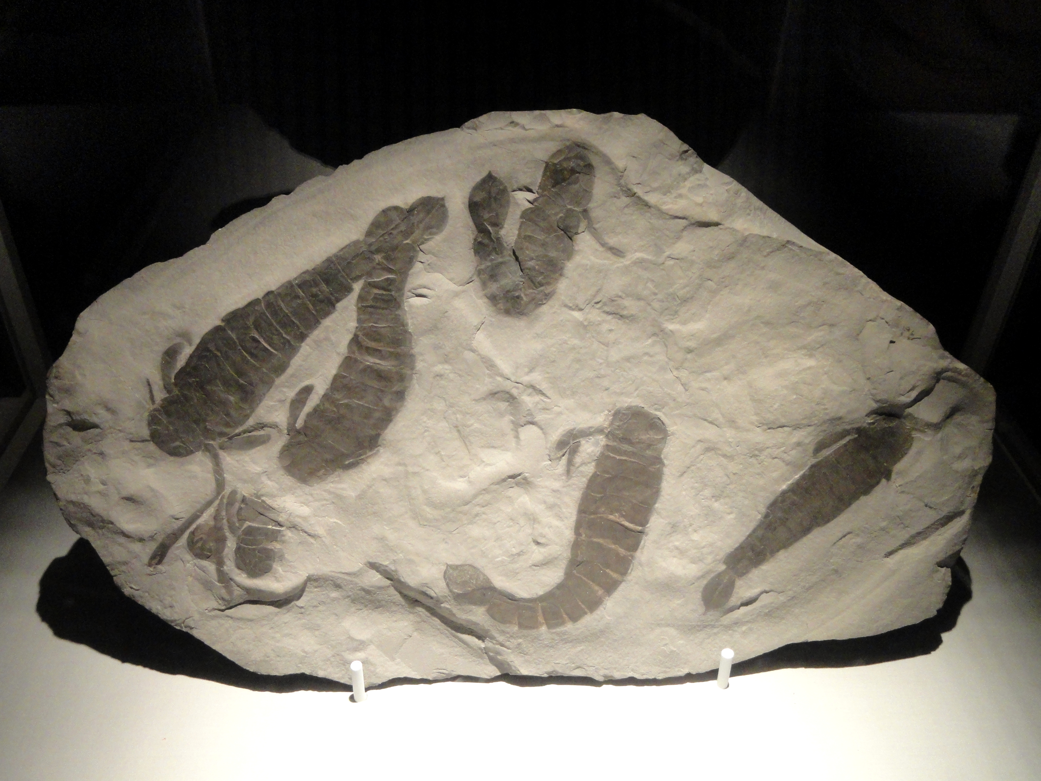 Exhibit in the Houston Museum of Natural Science, Houston, Texas, USA.